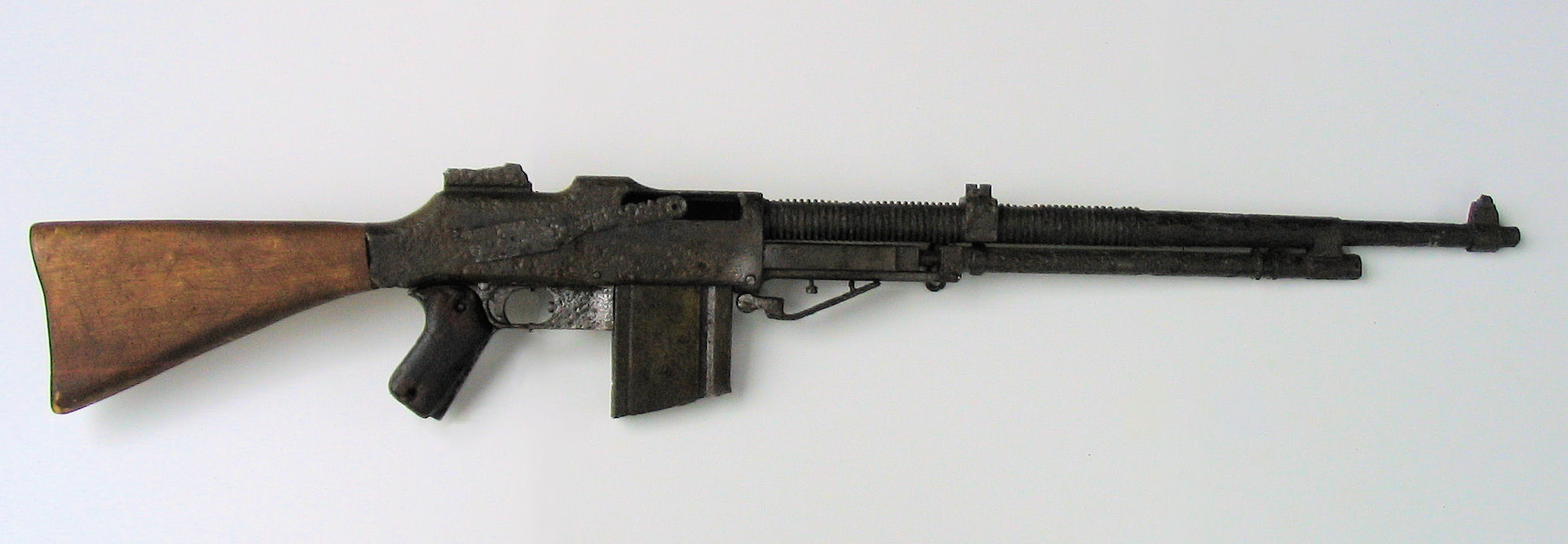 Browning wz.1928, Polish version of Browning Automatic Rifle (BAR) Aparat/Camera: Canon PowerShot A75